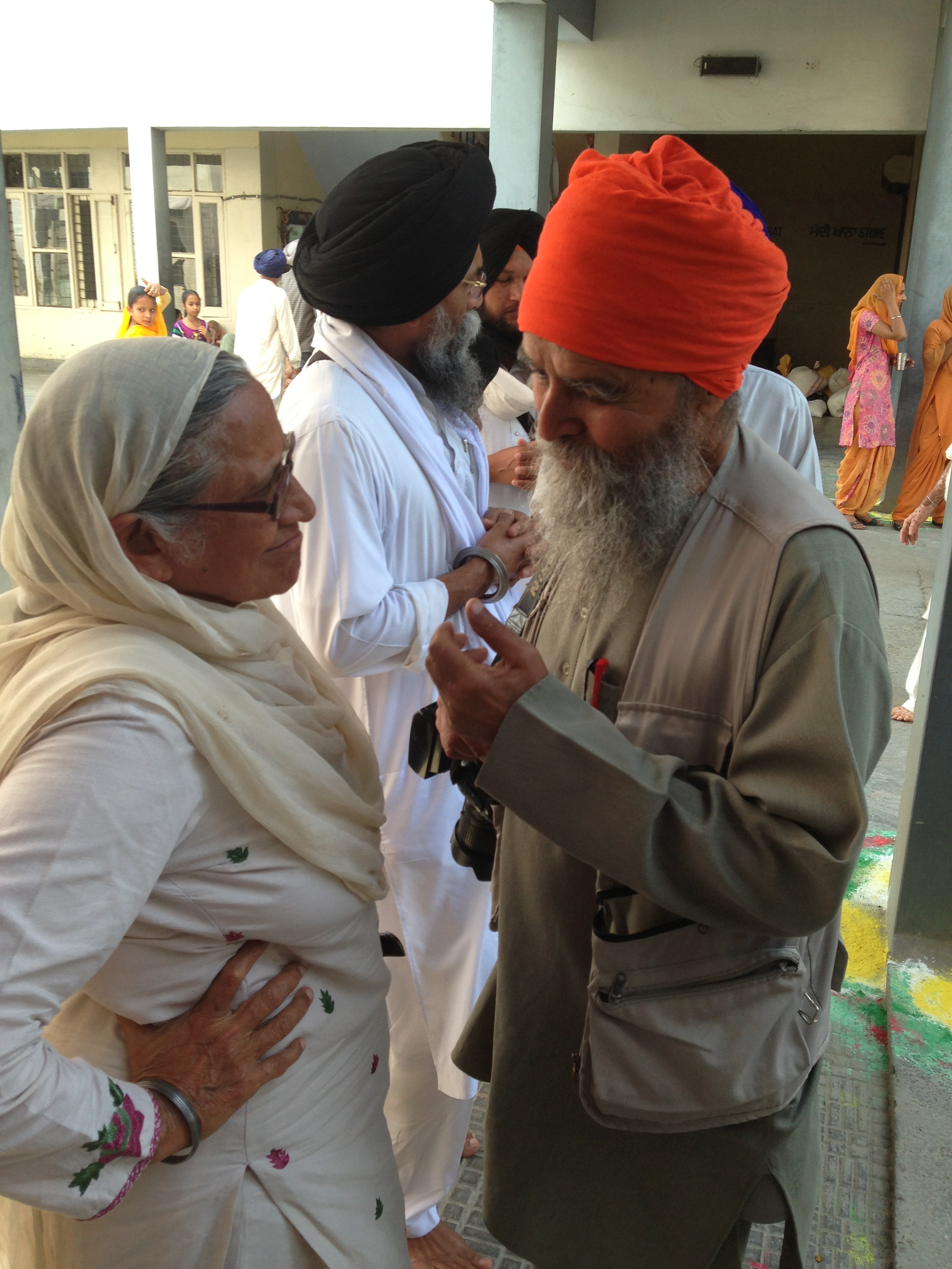 She is president of All India pingalwara charitable society Amritsar Harbhajan Singh Bajwa renowned punjabi photo journalist